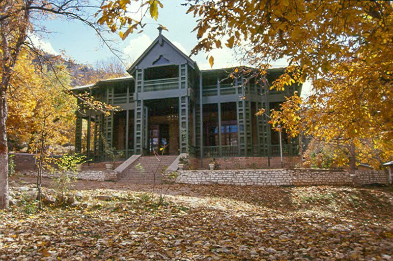 This file show the image of Quaide e Azam Residency. Where founder of Pakistan spent his last years of life.